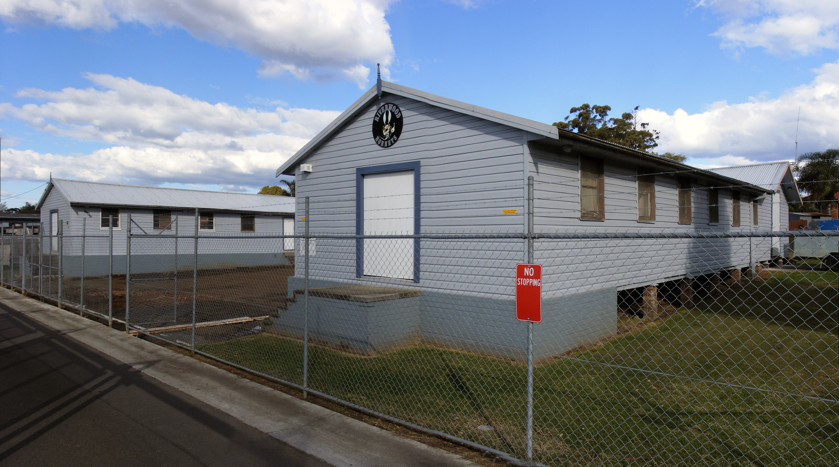 118th General Hospital US Army, Now Home of the Australian Air League Riverwood Squadron